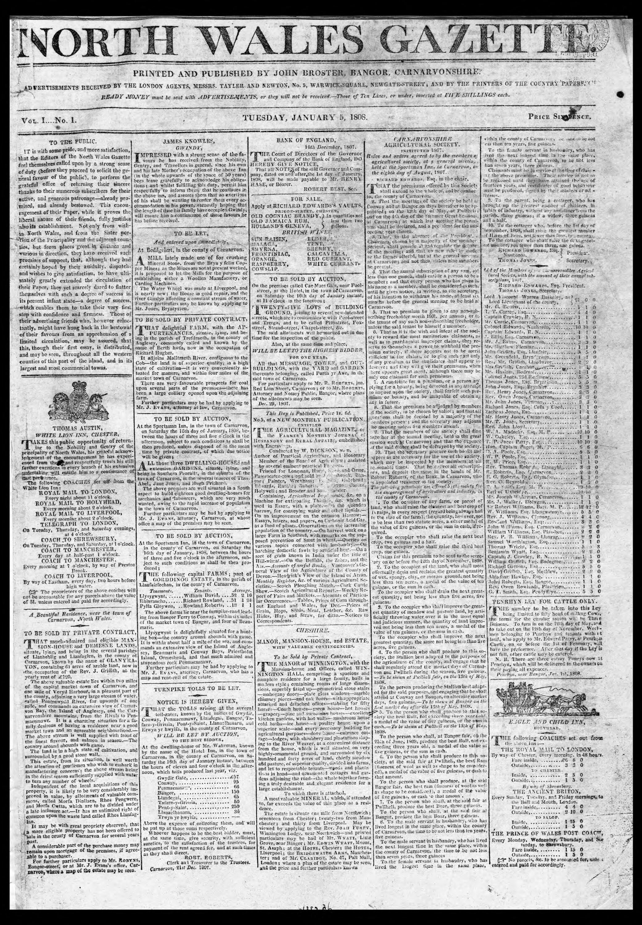 Front page of the earliest surviving copy of the Welsh newspaper North Wales Gazette